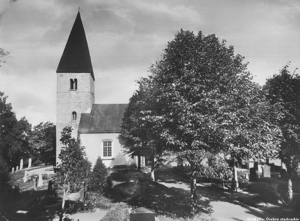 Hardemo church outside Kumla, Sweden